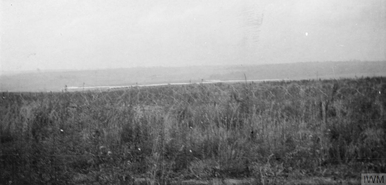 View looking towards Mametz Wood: France, 7th July 1916, prior to the fighting that captured the Wood during the Battle of the Somme.